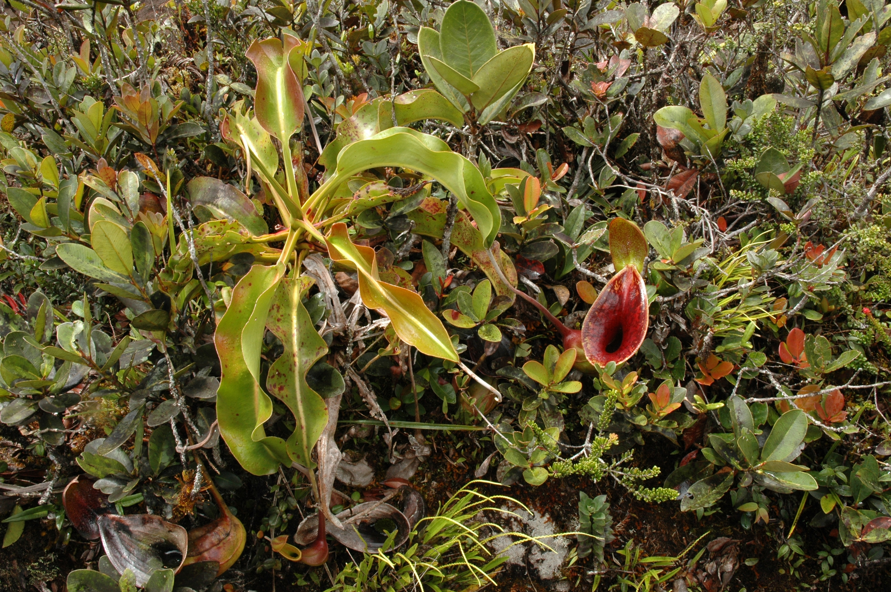 Nepenthes lowii Gunung Murud by Jeremiah Harris